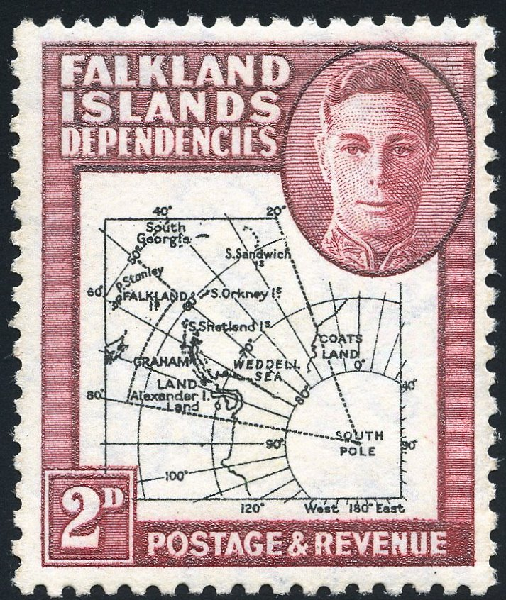 Stamp of Falkland Islands Dependencies, 1946, 2d, carmine, SG G9-G16.